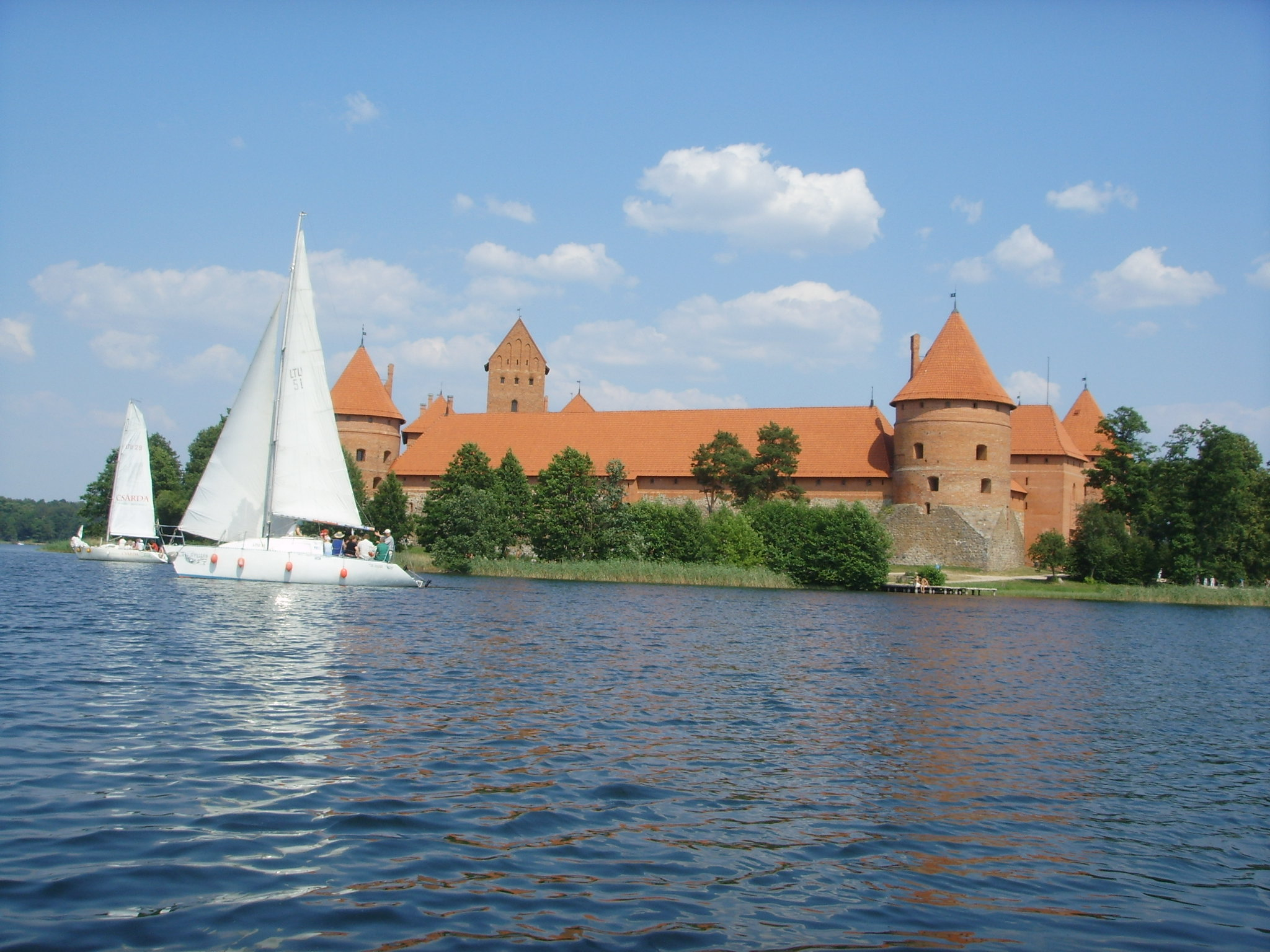 Trakai castle at Vilnius, Lithuania with sailing boats in front, July 2006. Photographer: Jan S. Krogh.